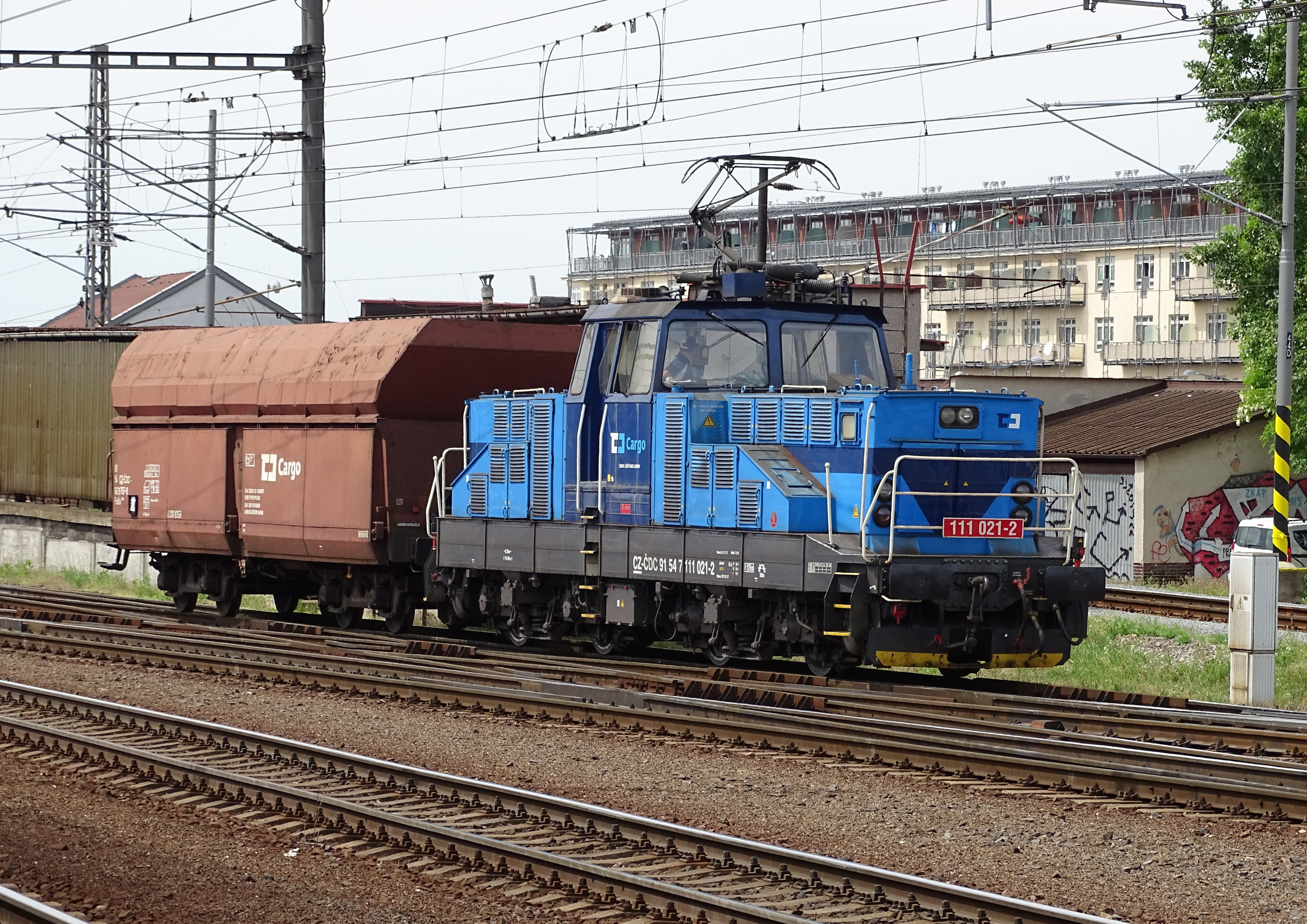 Prague-Vysočany, Czechia, Praha-Libeň station, a train.